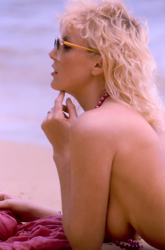 British model Linzi Drew on a beach in the Algarve, May 1986 (scan of old slide)